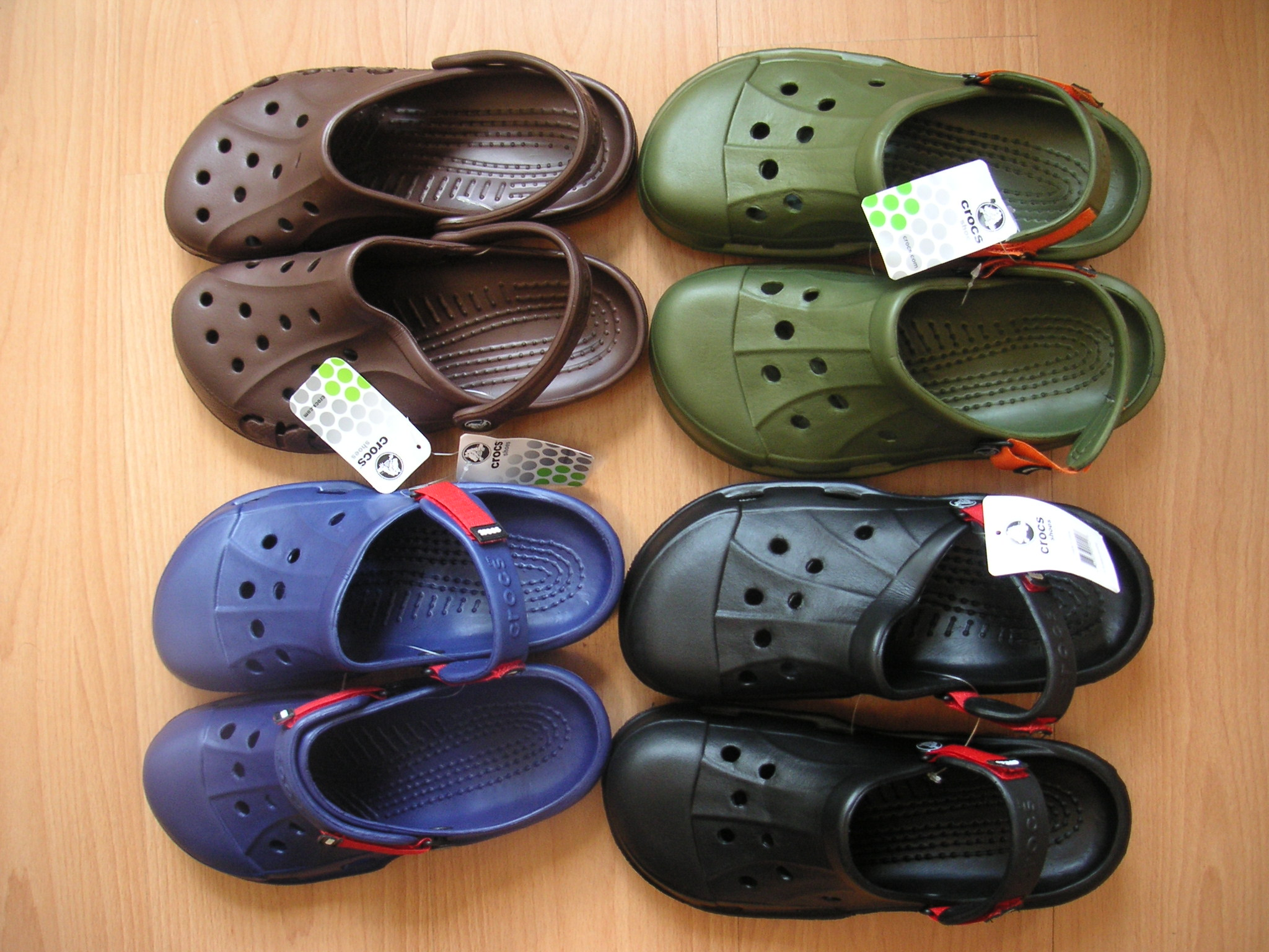 Crocs bought from Hong Kong, Hong Kong.